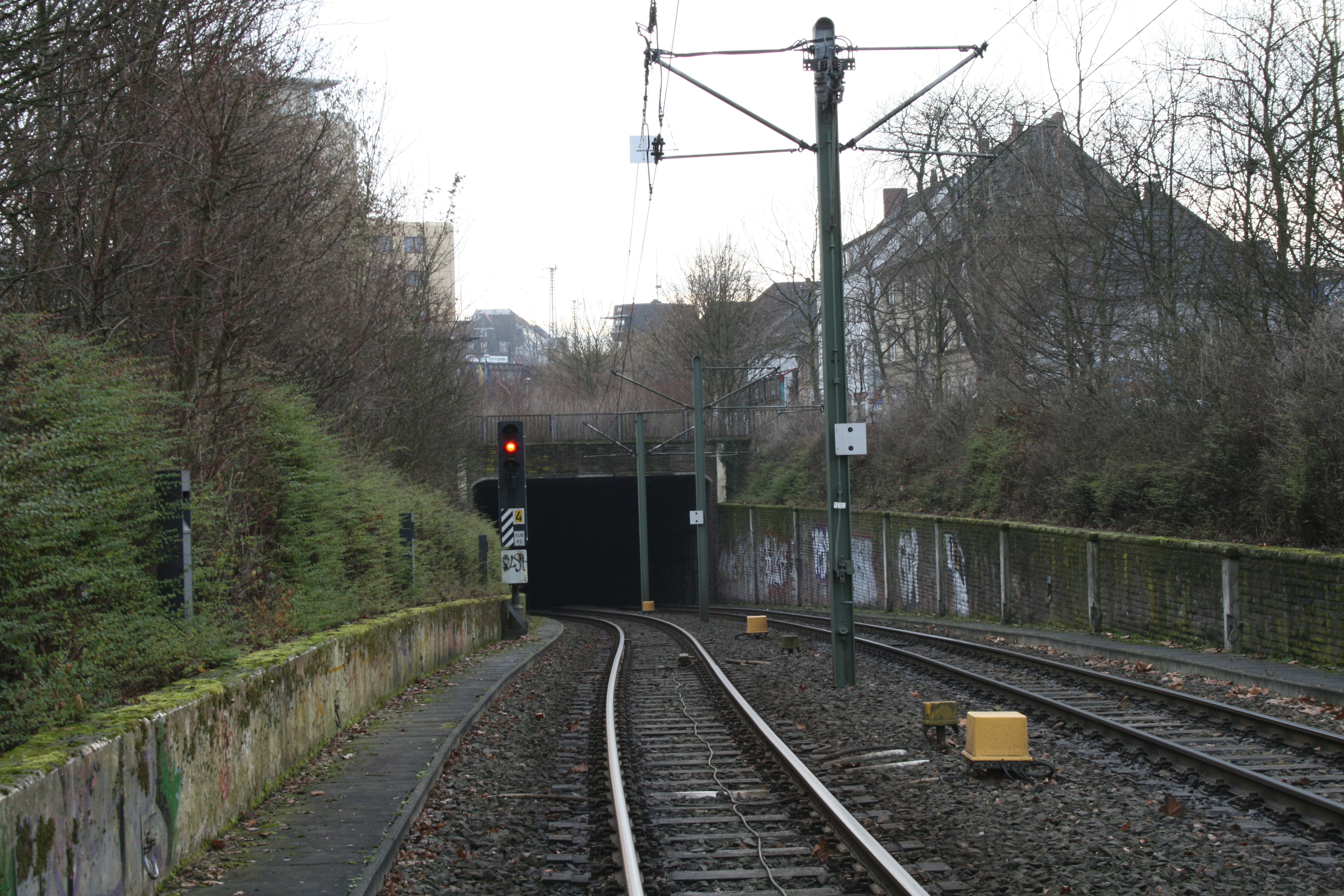 Bielefeld, tunnel portal at the city railway station Sudbrackstraße of line 1 ( 1 Senne – Hauptbahnhof – Jahnplatz – Schildesche).